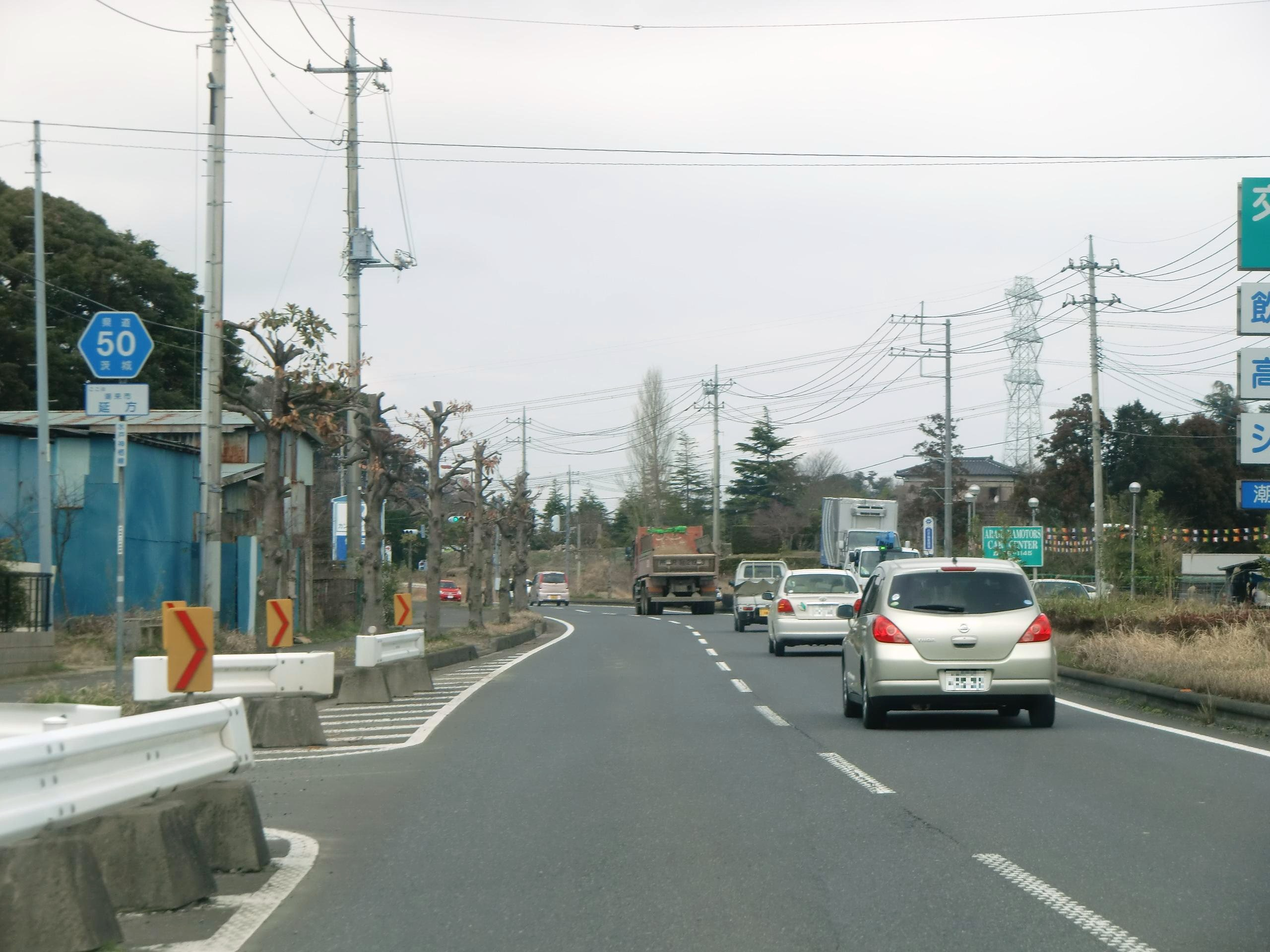 Ibaraki prefectural road 50 (Mito-Kamisu line) in Nobukata, Itako city, Ibaraki prefecture, Japan.